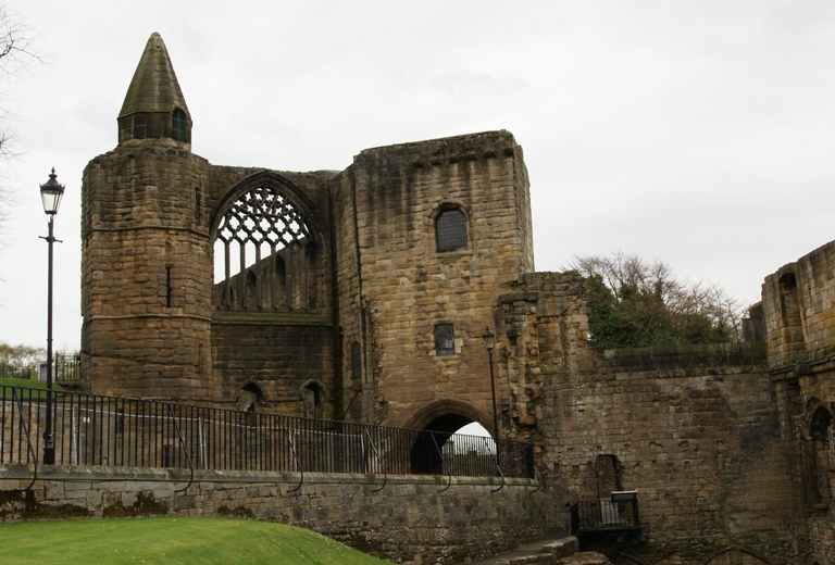 Dunfermline Abbey, Fife, Scotland - Pends Gate